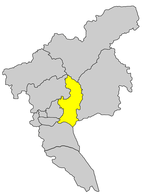 Location of Huangpu District, Guangzhou